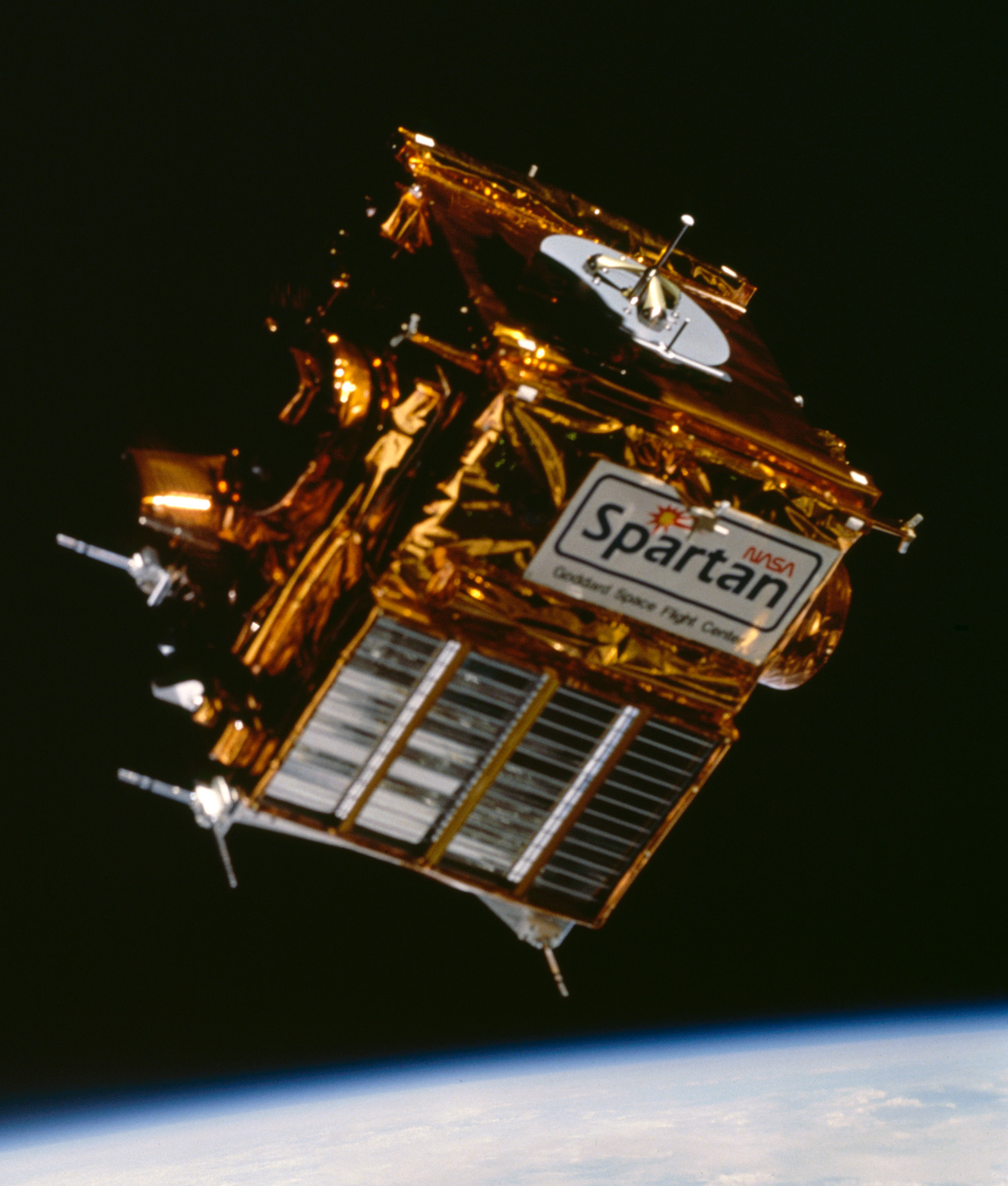 SPARTAN 204 freeflying during STS-63 mission. The blackness of space and part of Earth's horizon form the backdrop for this 70mm frame of the free-flying SPARTAN 204 mission. Carried into space by the STS-63 crewmembers, the satellite was later re-captured by the crew and used for maneuvering evaluations by the two space walkers, astronauts Bernard Harris and Michael Foale.